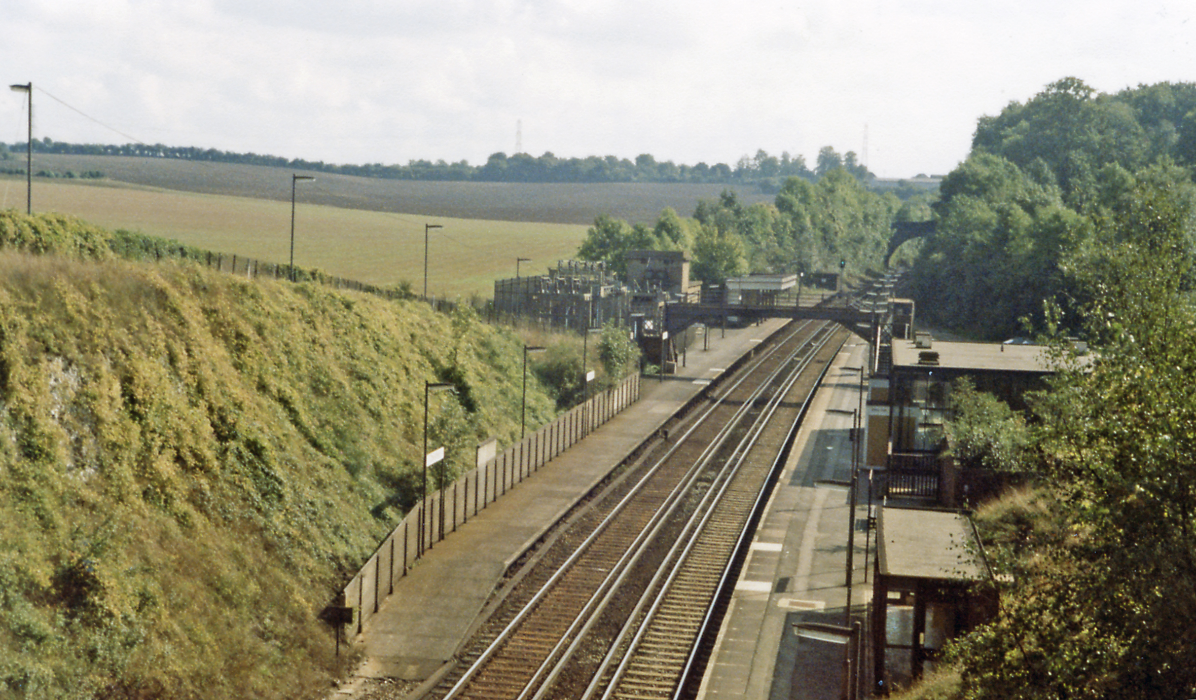 Chelsfield station. View SE, towards Sevenoaks, Tonbridge, Dover etc.: ex-SER (later SE&CR) London (Charing Cross/Cannon St.) - Kent main line.